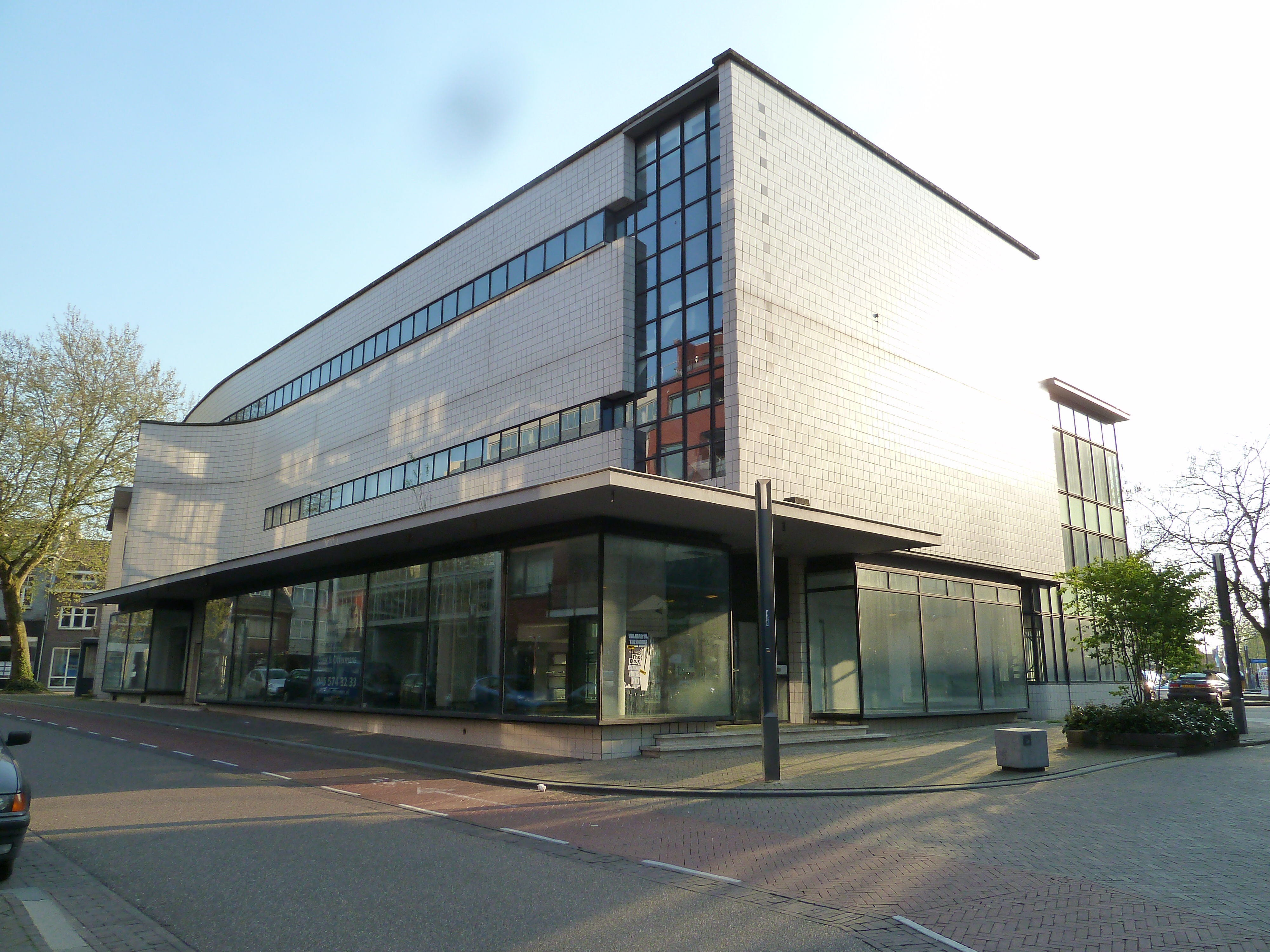 Former HEMA store and office building designed by Dirk Brouwer in 1939, restaurant section redesigned in 1959. Raadhuisplein, corner Doctor Poelsstraat, Heerlen, Limburg, the Netherlands